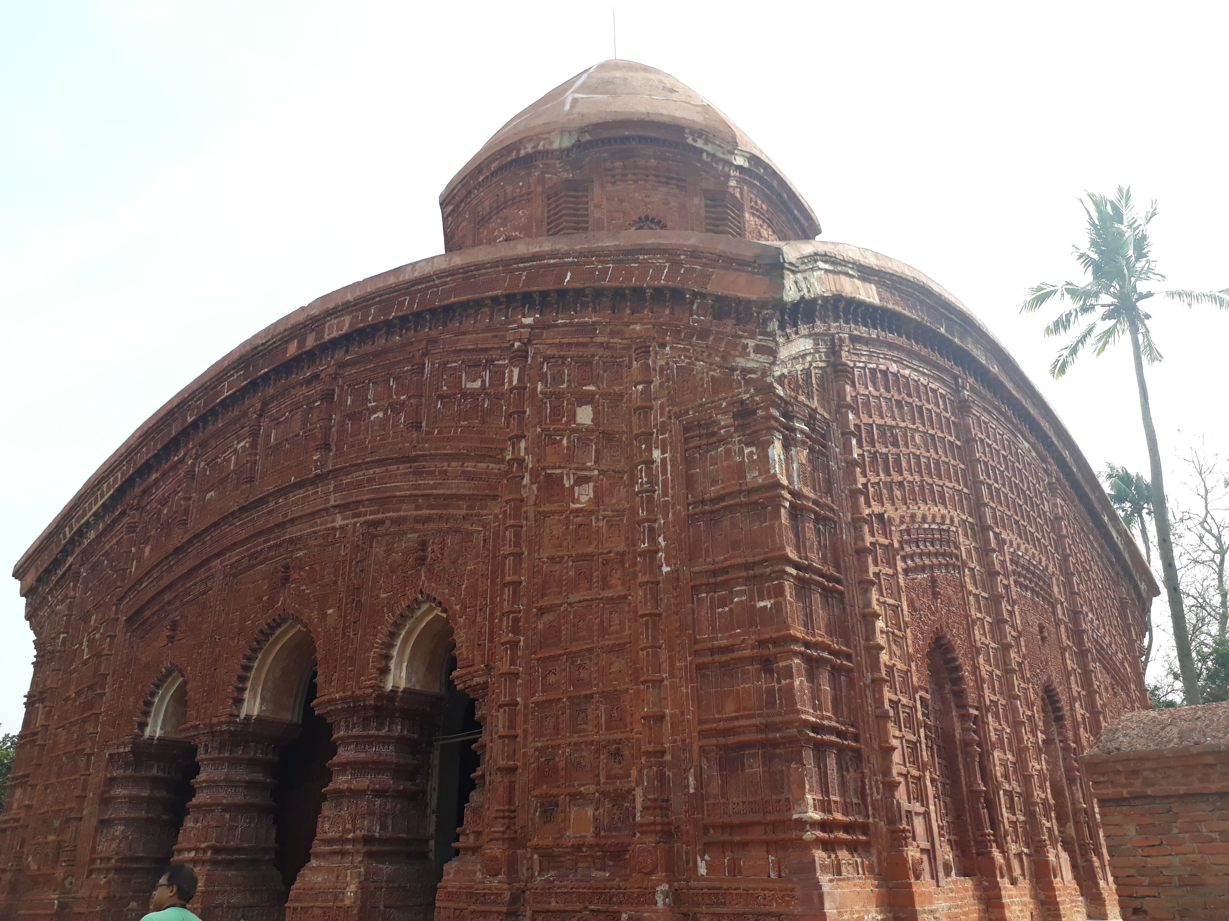 Ramchandra Temple, Guptipara, Hooghly, West Bengal